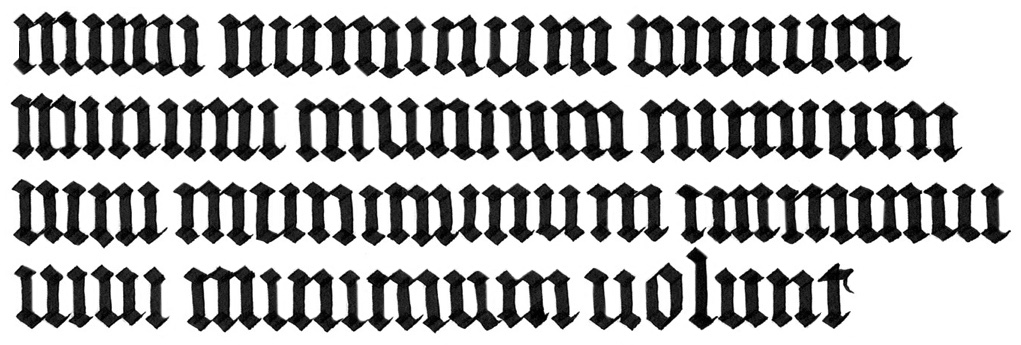 A rendering of the Latin phrase "mimi numinum niuium minimi munium nimium uini muniminum imminui uiui minimum uolunt" in a Gothic calligraphic hand. See "Minim (palaeography)" on English Wikipedia.